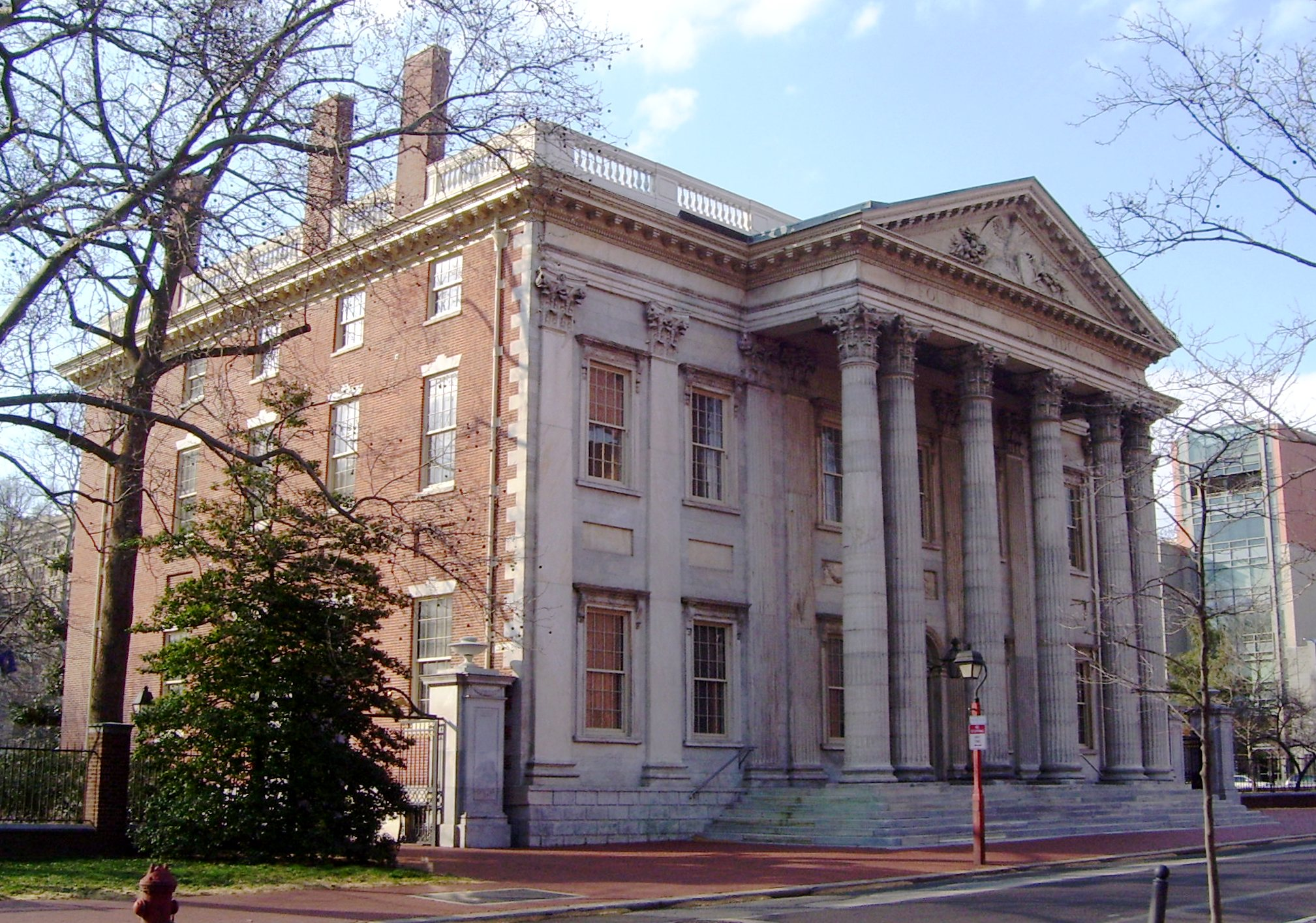 The First Bank of the United States on S. Third Street between Walnut Street and Chestnut Street in Philadelphia, Pennsylvania was built in 1795.